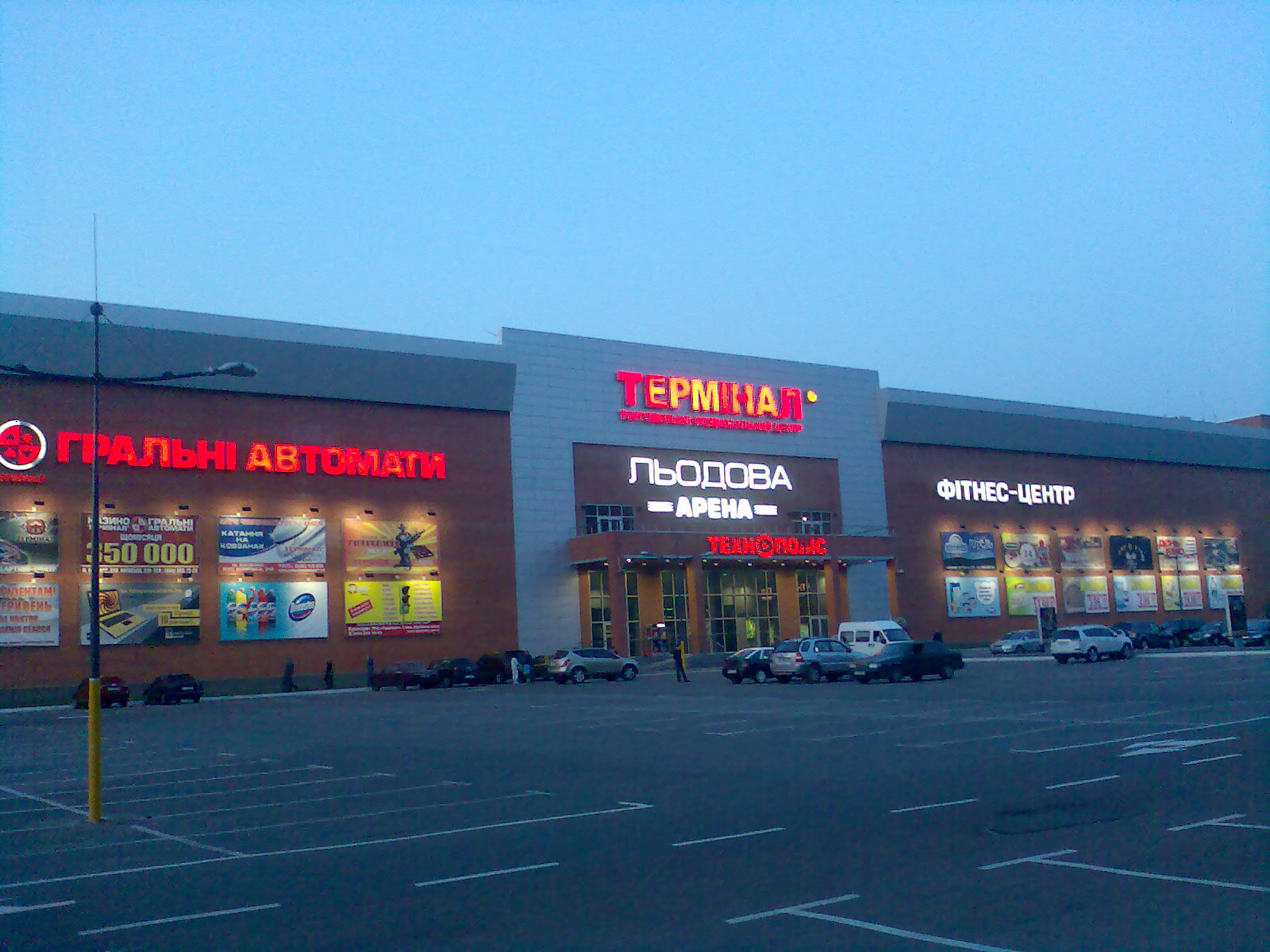 Terminal Ski Arena in Brovary